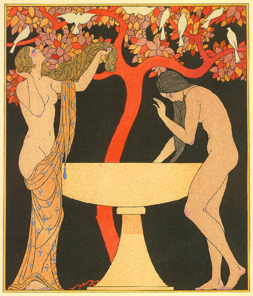 Untitled pochoir by George Barbier from the 1922 edition of Songs of Bilitis, edited by Pierre Corrard. Pictured are two women at a fountain with doves perched overhead in a tree.